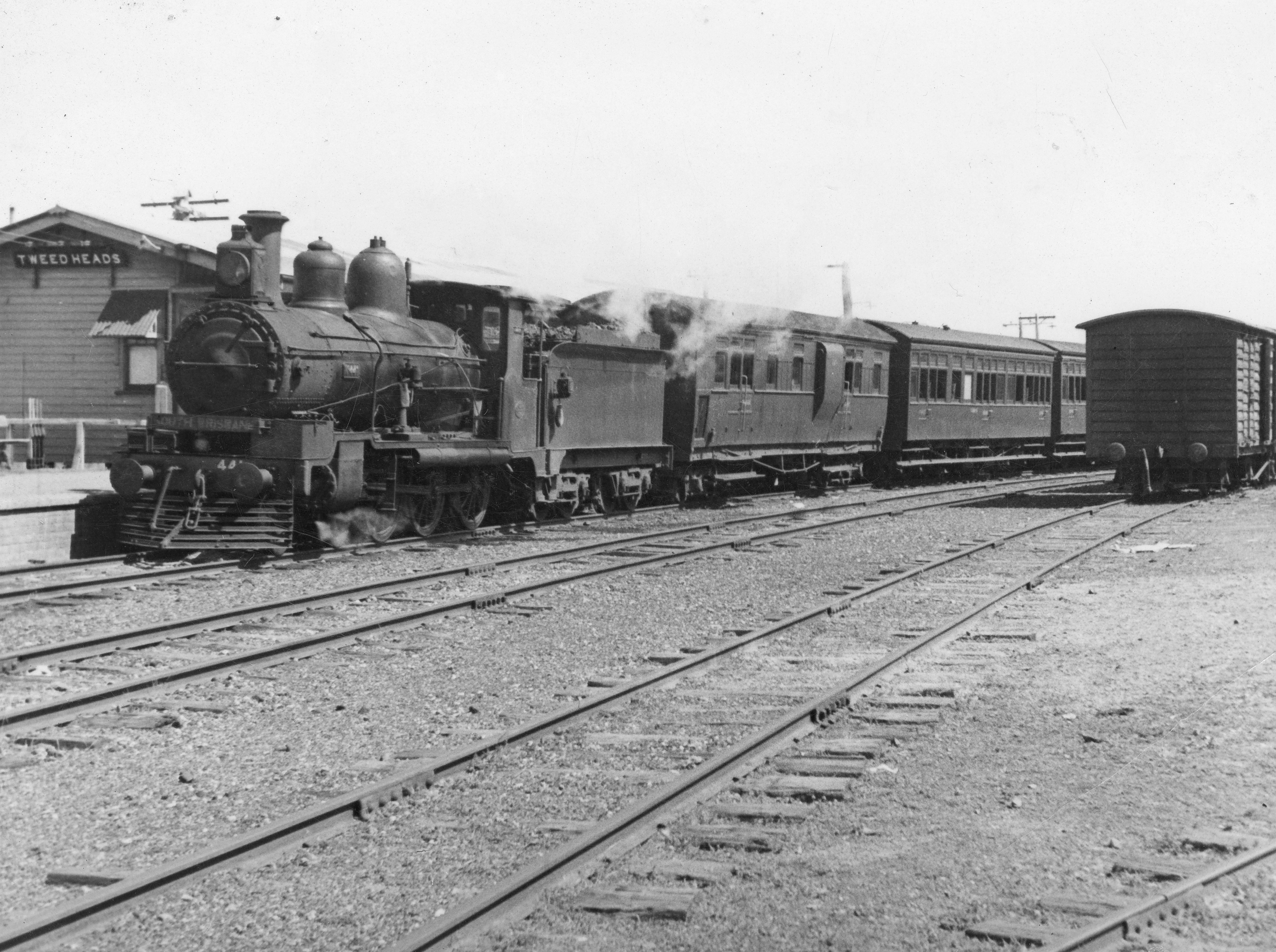 Southport train at Tweed Heads Railway Station, 1940 The engine of the train is labelled South Brisbane as there was a connection at Southport. (Description supplied with photograph).